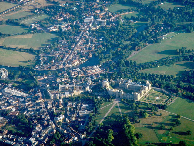 Windsor The Castle in early morning sunshine, from the Dublin flight